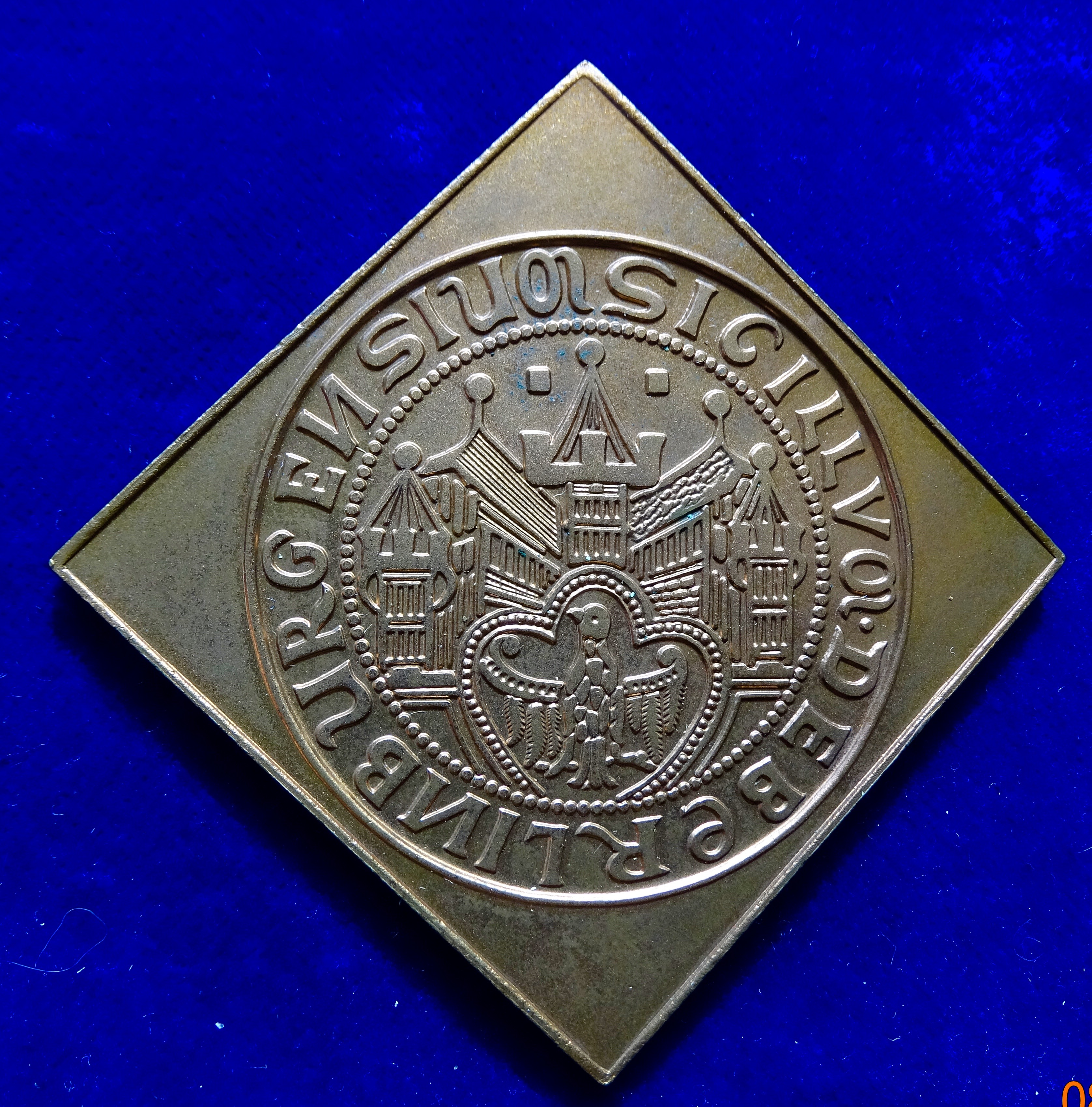 Klippe Medal Town Seal Berlin 1253 Copy 1971 Bronze 50 x 50 mm Town Seal surrounded by "SIGILLVM· DE BERLINBURGENSIUM"/ 3 lines blow DKB- emblem: "NUMISMATIK BERLIN DDR", around: "· DEUTSCHER KULTURBUND · MCMLVI · MCMLXXI ·" Condition: UNCIRCULATED.